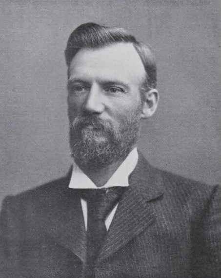 Picture of Lee Batchelor.